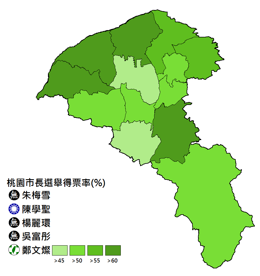 This is the result of the local election in Taoyuan in 2018